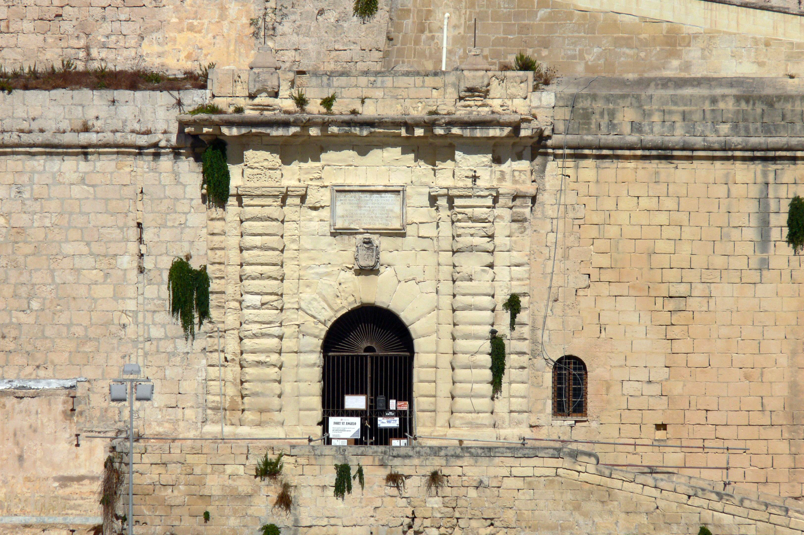 The gate of Fort St. Angelo, Il-Birgu, Malta